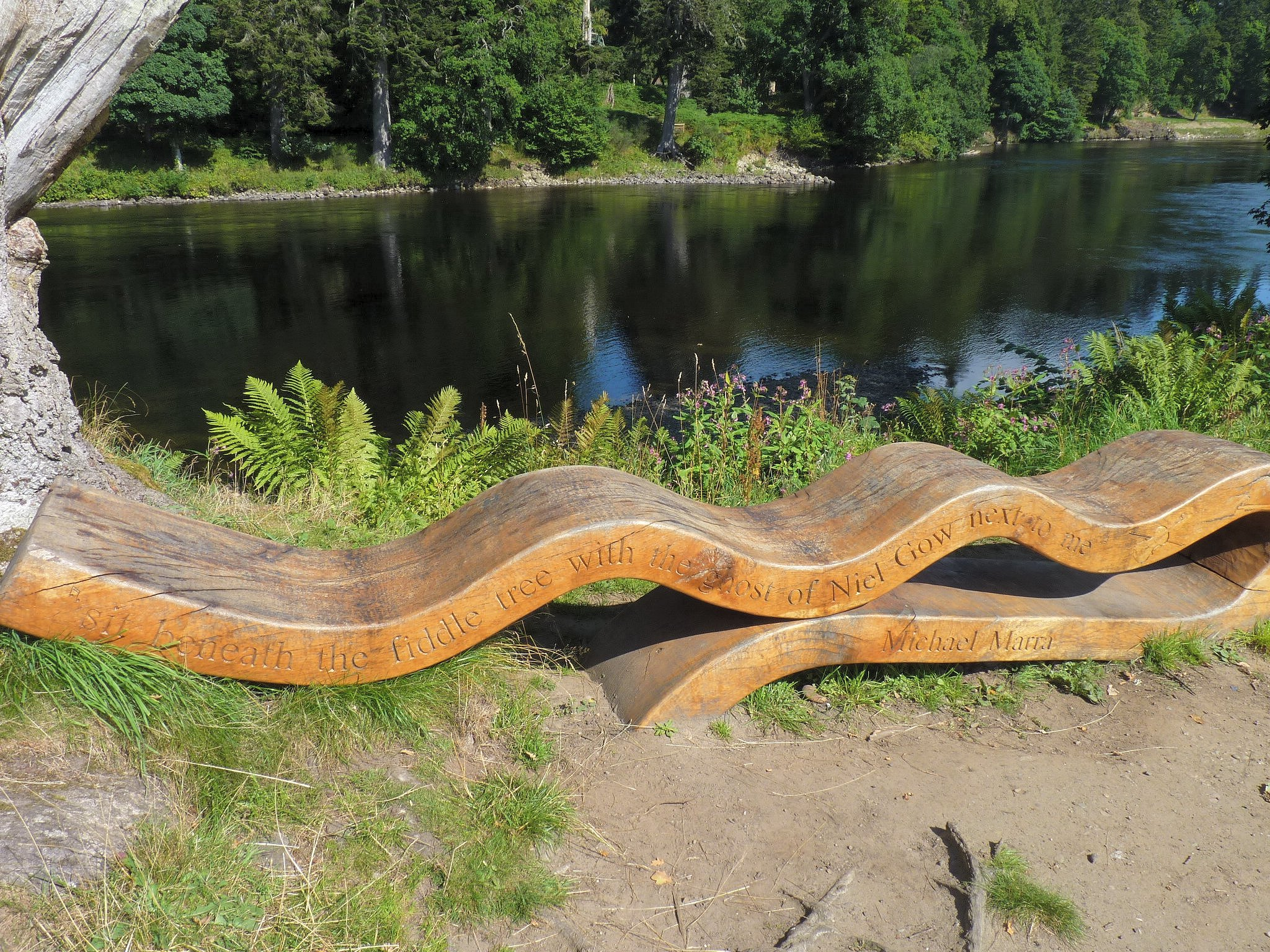 Memorial bench at Neil Gow's Oak